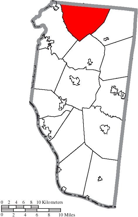 Map of the municipal and township boundaries of Clermont County, Ohio, United States, as of the 2000 census, with the location of Goshen Township highlighted. Township borders are shown only in unincorporated areas in order to differentiate incorporated and unincorporated areas more clearly.